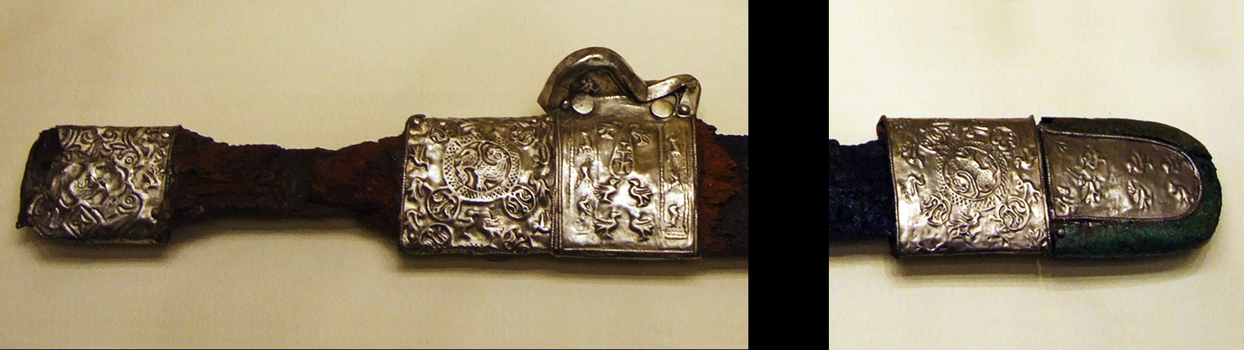 Iron sword with relief decorations of silver leaf from Grave 102, Morrione Campochiaro, Province of Campobasso, Region Molise, Italy The cemetery of Morrione was laid out in the 7th century in irregular rows of graves oriented east-west. The dead were buried lying in a supine position. Remnants of coffins have been found in only a few instances. At a remove of just 800 meters, the cemetery of Vicenne has a nearly identical layout. A noteworthy feature of both cemeteries is the presence of 19 mounted warriors' graves, each with an accompanying burial of a horse. This burial custom is extremely rare in Italy and has its closest parallels in the Avar burial grounds of Hungary, for example the necropolis of Zamárdi. In addition to the horse burials, the specific form of earrings found in women's graves and the decorative patterns of ornamental fittings found in men's graves are closely related to those of the Avars. In the northern half of Grave 102, a warrior was interred along with grave goods and with his head pointing west. In the southern half, the horse with full trappings was buried with its head pointing east. The form and decoration of the weapons, particularly the sword and bow, show clear parallels to Avar burials. The hilt core and the long, narrow blade were made of a single piece. The grip was made of wood and decorated with ornamental mounts at the foot and end. The mounts are richly ornamented in Animal Style. The closest parallels in terms of both sword form and ornamentation have been found in large numbers in the Carpathian Basin dating to the late 6th and early 7th centuries. Photographed while on display from 22 August 2008 to 11 January 2009 in the exhibition "Die Langobarden. Das Ende der Völkerwanderung" at the Rheinisches LandesMuseum Bonn. On loan from the Soprintendenza per i Beni Archeologici Molise, Campobasso.